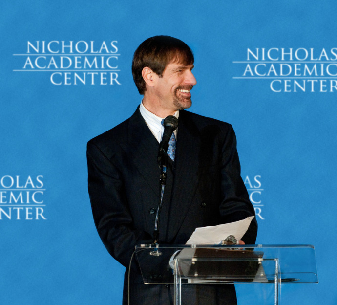 Henry Nicholas addressing students at the Nicholas Academic Center Graduation